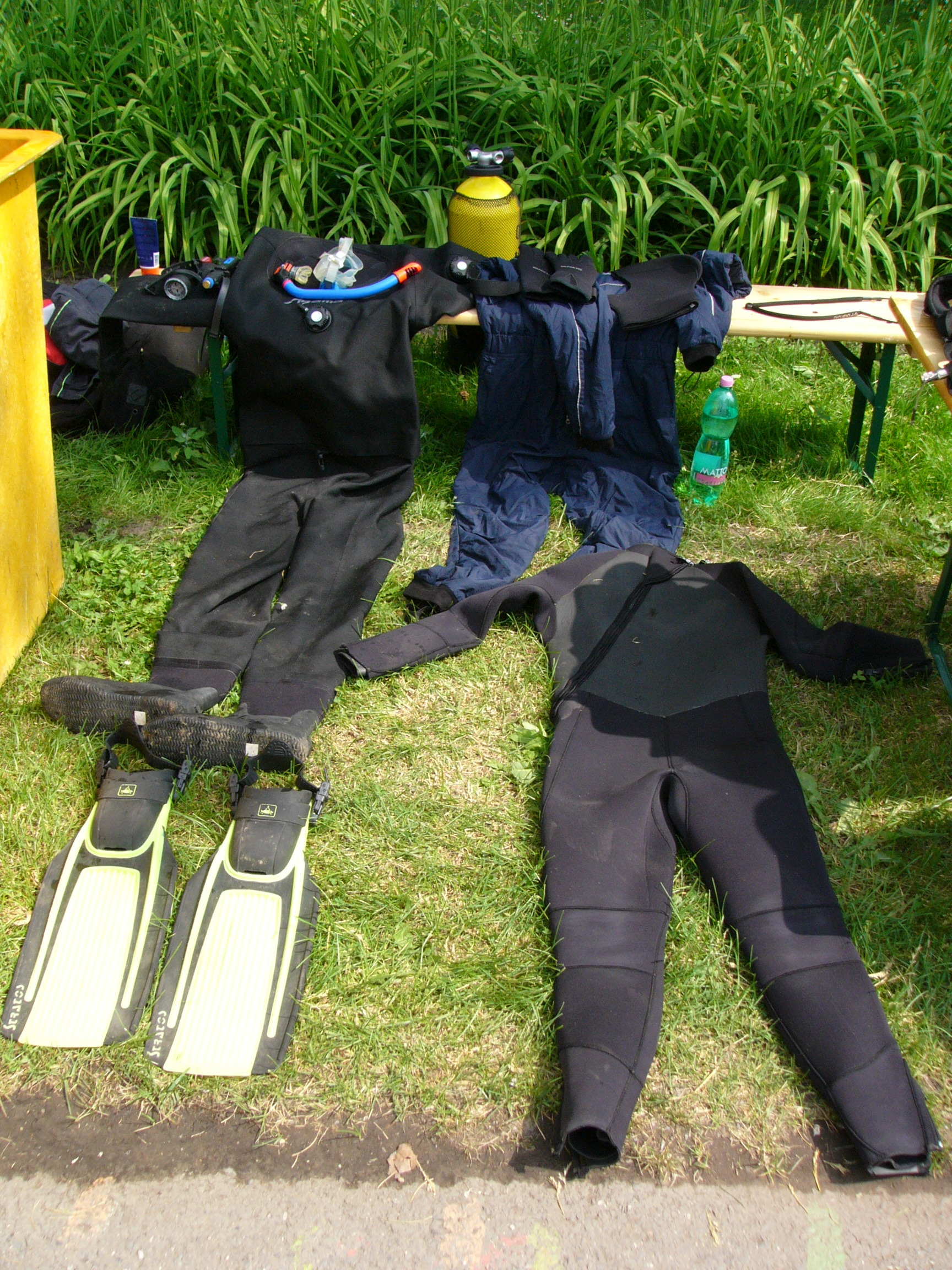 summer and winter underwater diving suits. Wetsuit (left) and wetsuit too(?).